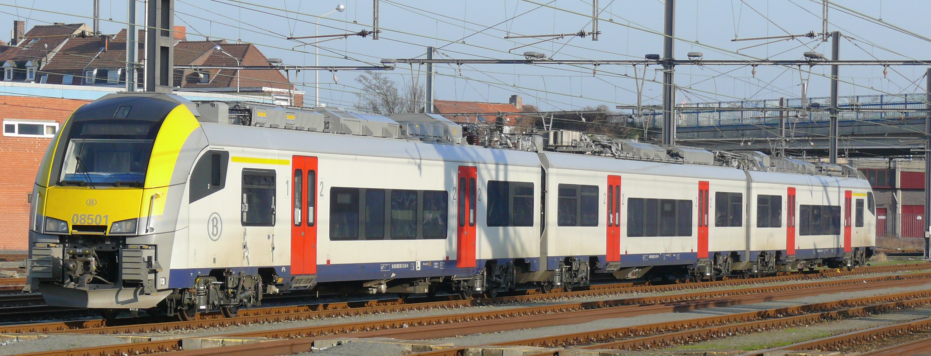 NMBS 08501 (type MS08 a Siemens type Desiro Main Line (Desiro ML) in Tournai.